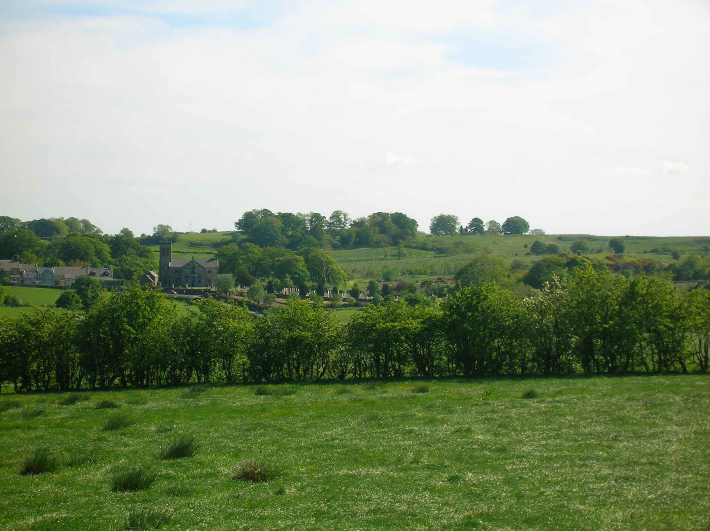 Dunlop village and kirk, Ayrshire, Scotland.